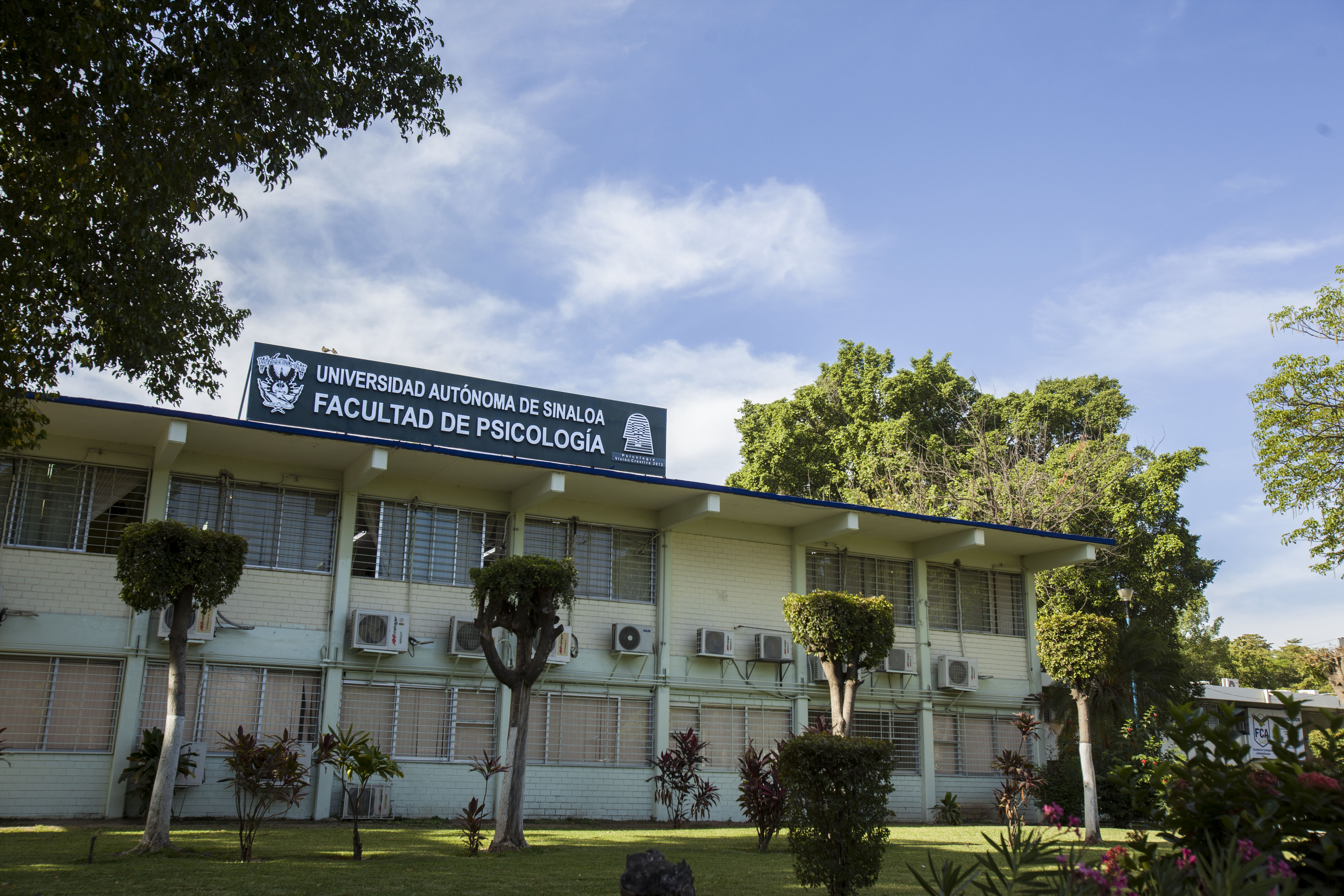 Autonomous University of Sinaloa, Psychology faculty, Culiacan campus.